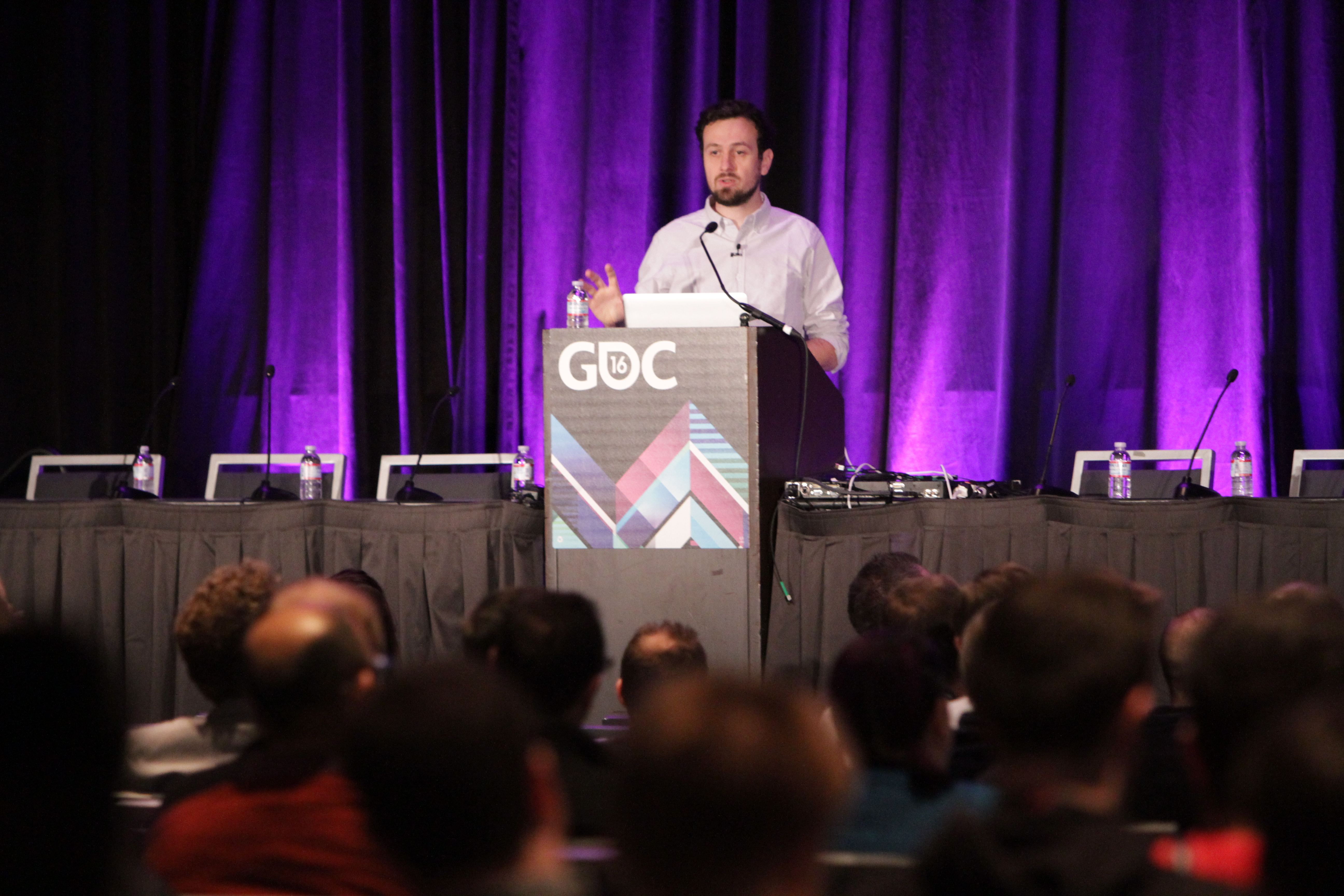 Distilling A Franchise: A Lara Croft GO Postmortem Antoine Routon | Technical Direction, Square Enix Montreal Location: Room 134, North Hall Date: Thursday, March 17 Time: 10:00am - 11:00amDistilling A Franchise: A Lara Croft GO Postmortem Antoine Routon | Technical Direction, Square Enix Montreal Location: Room 134, North Hall Date: Thursday, March 17 Time: 10:00am - 11:00am